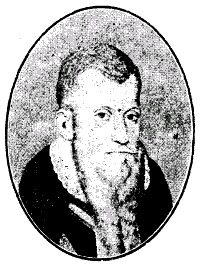 Nils Göransson Gyllenstierna